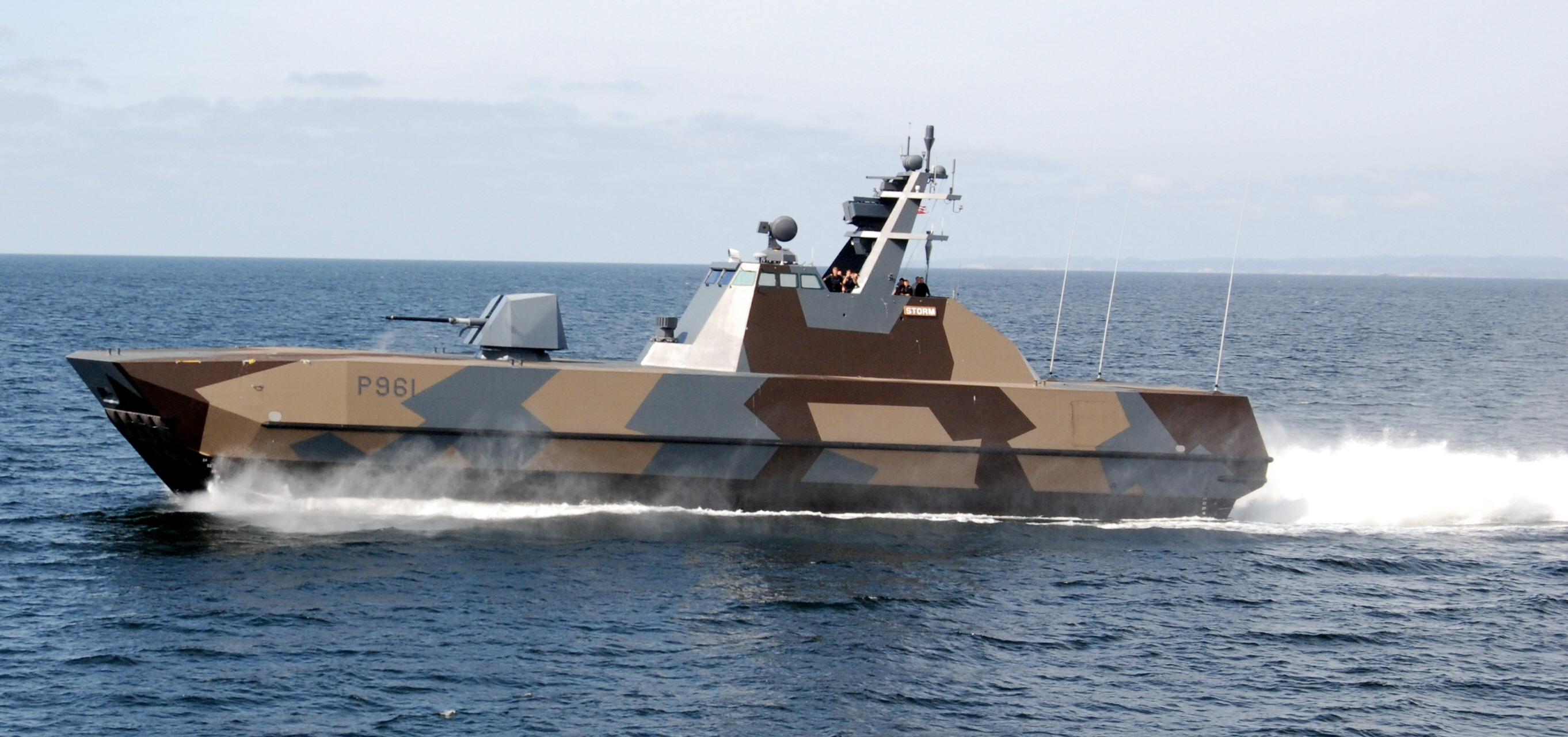 Norwegian Navy Patrol boat Storm, wearing disruptively patterned terrestrial style camouflage for coastal use.